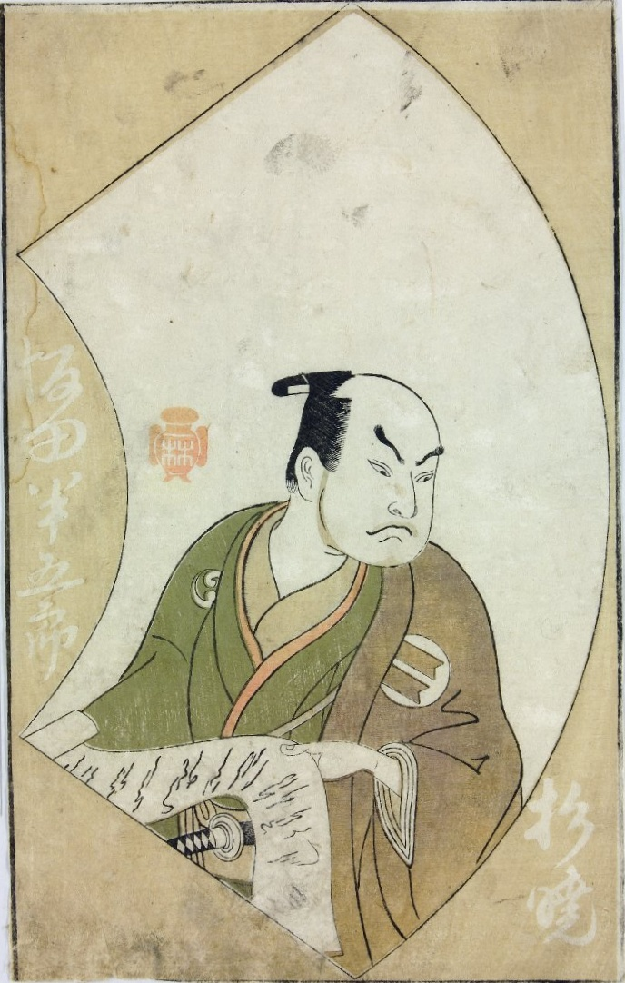 woodblock print by Katsukawa Shunshō, page from the book ’Ehon Butai Ōgi’, the actor Sakata Hangorō, 1770